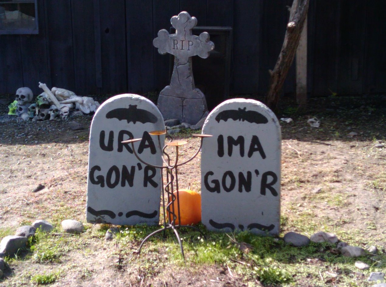 In front of "haunted house" during Halloween season, Northern California.